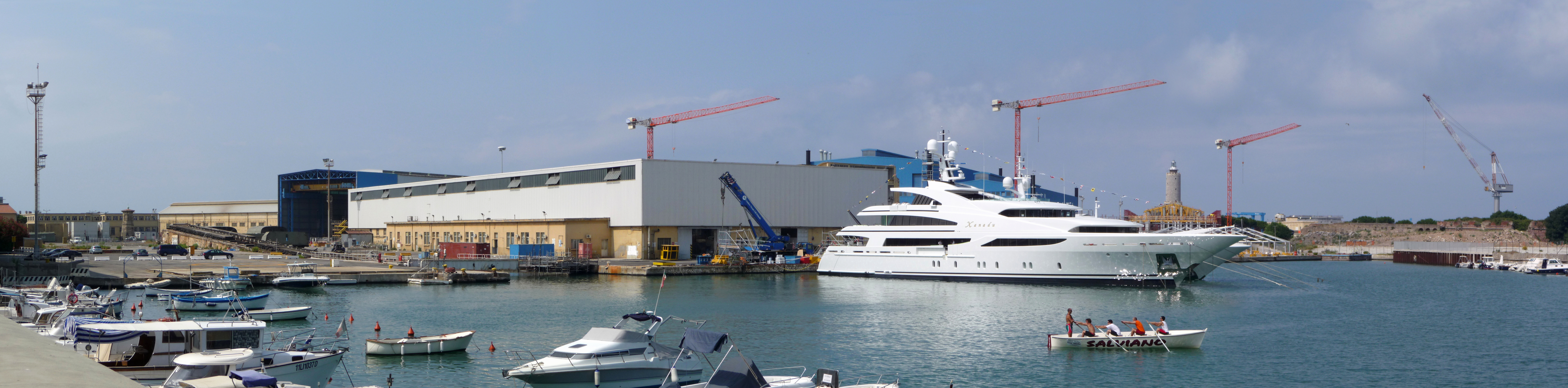 Cantiere Orlando / Cantiere Benetti, Livorno, Italy